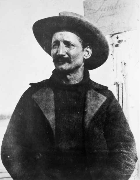 Italian-American gold prospector Felix Pedro (born Felice Pedroni)